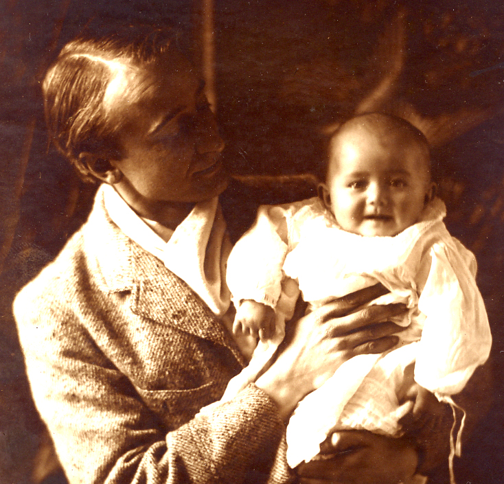 Henry Meulen, with his daughter Paula, 1911-2009